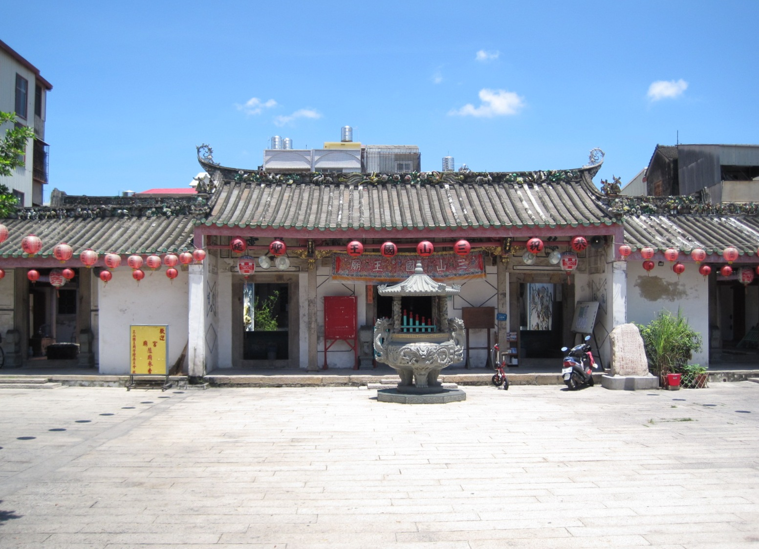 Sanshan Guowang Temple in Tainan, Taiwan.